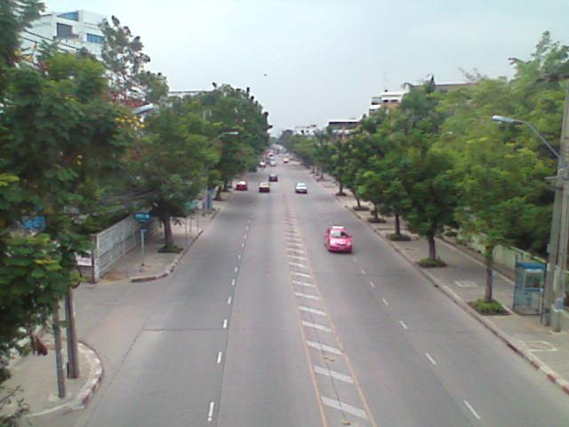 Chaloem Phra Kiat Ratchakan Thi 9 road